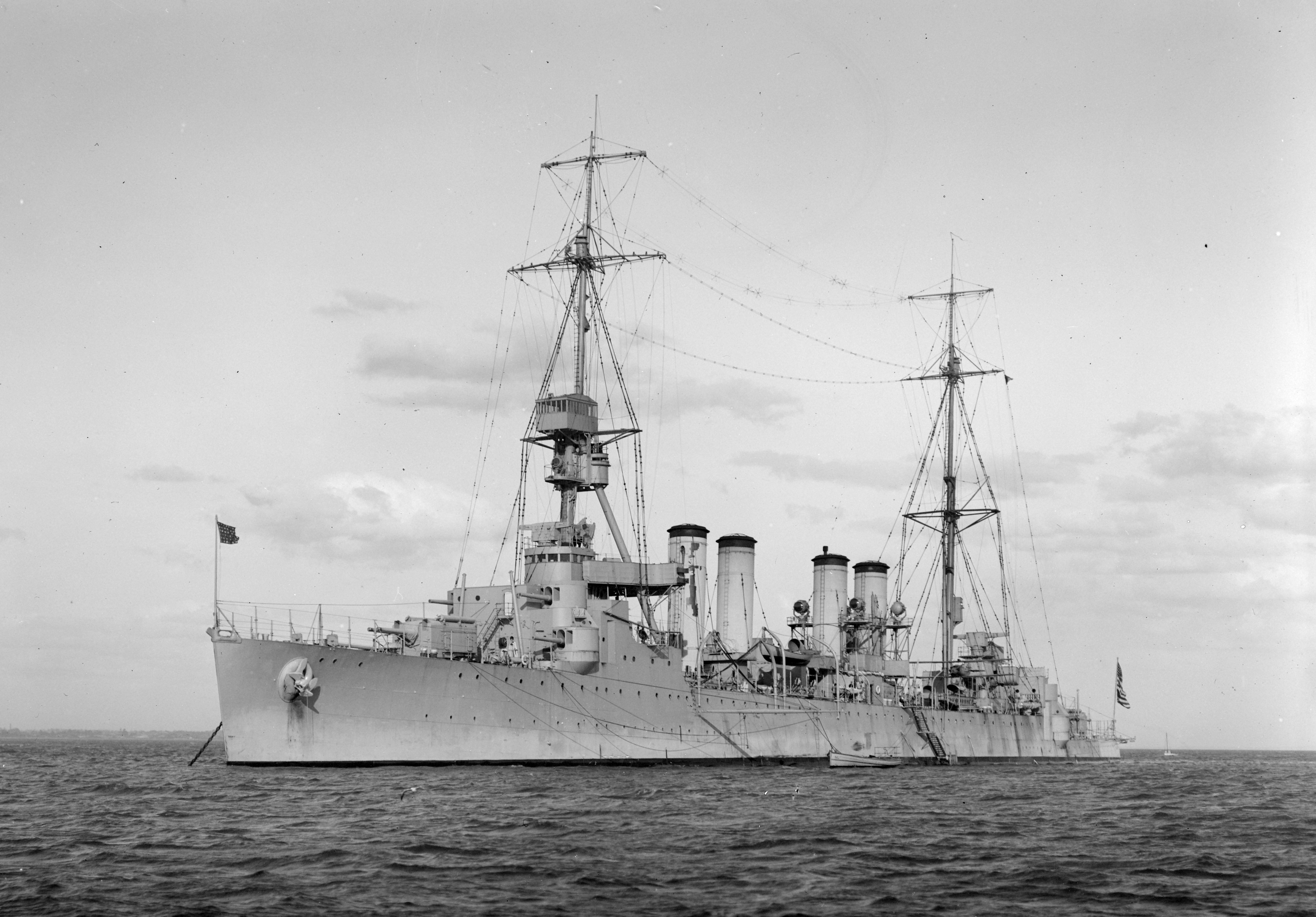 The U.S. Navy light cruiser USS Memphis (CL-13) at anchor in Australian waters. The photo was probably taken during Memphis' South Pacific cruise in June 1925.